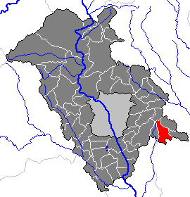 This map shows the area of the Gemeinde (municipality) Krumegg in the Bezirk (district) Graz-Umgebung, Styria, Austria.